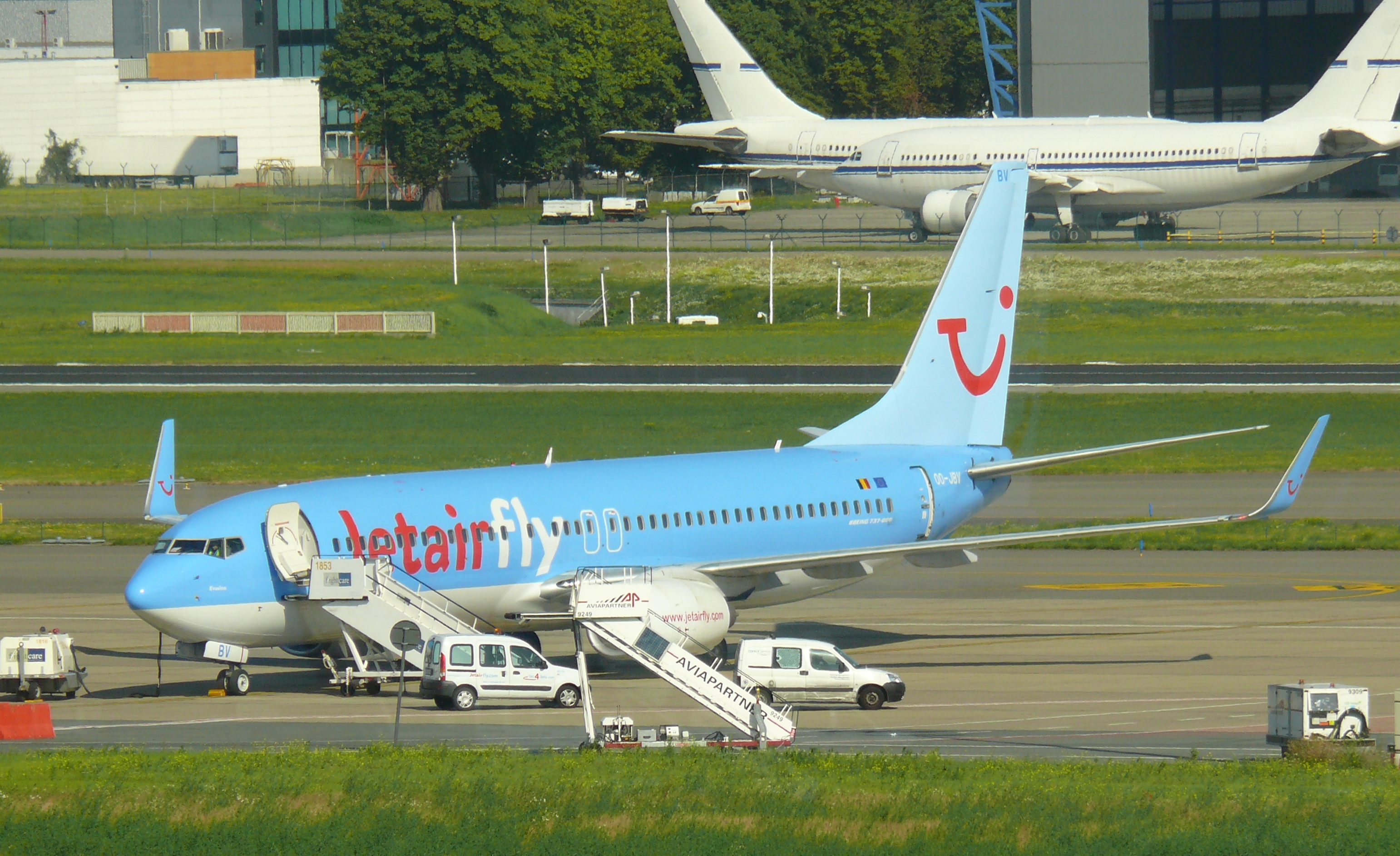 JetairFly Boeing 737-800 (Next Generation) OO-JBV (cn 27990/246) at Zaventem Brussels Airport